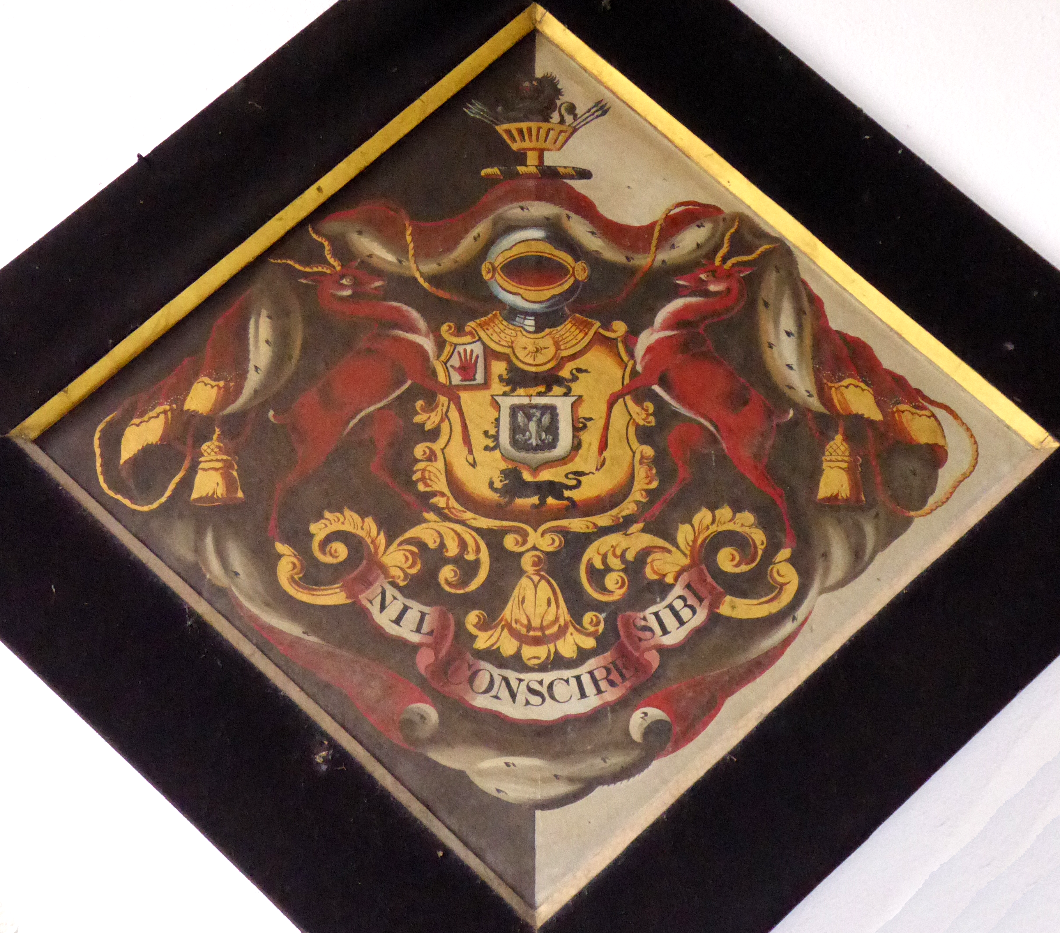 Funerary hatchment of Sir Henry Carew, 7th Baronet (1779–1830) of Haccombe in Devon, St Blaise's Church, Haccombe. Showing heraldic achievement of Carew (Or, three lions passant in pale sable) (with canton Red Hand of Ulster) with inescutcheon of pretence of Palk (Sable, an eagle displayed argent beaked and legged or a bordure engrailed of the second) for his wife Elizabeth Palk (1786-1862), only surviving daughter and sole heiress of Walter Palk (1742-1819), MP, of Marley House in the parish of Rattery, Devon.